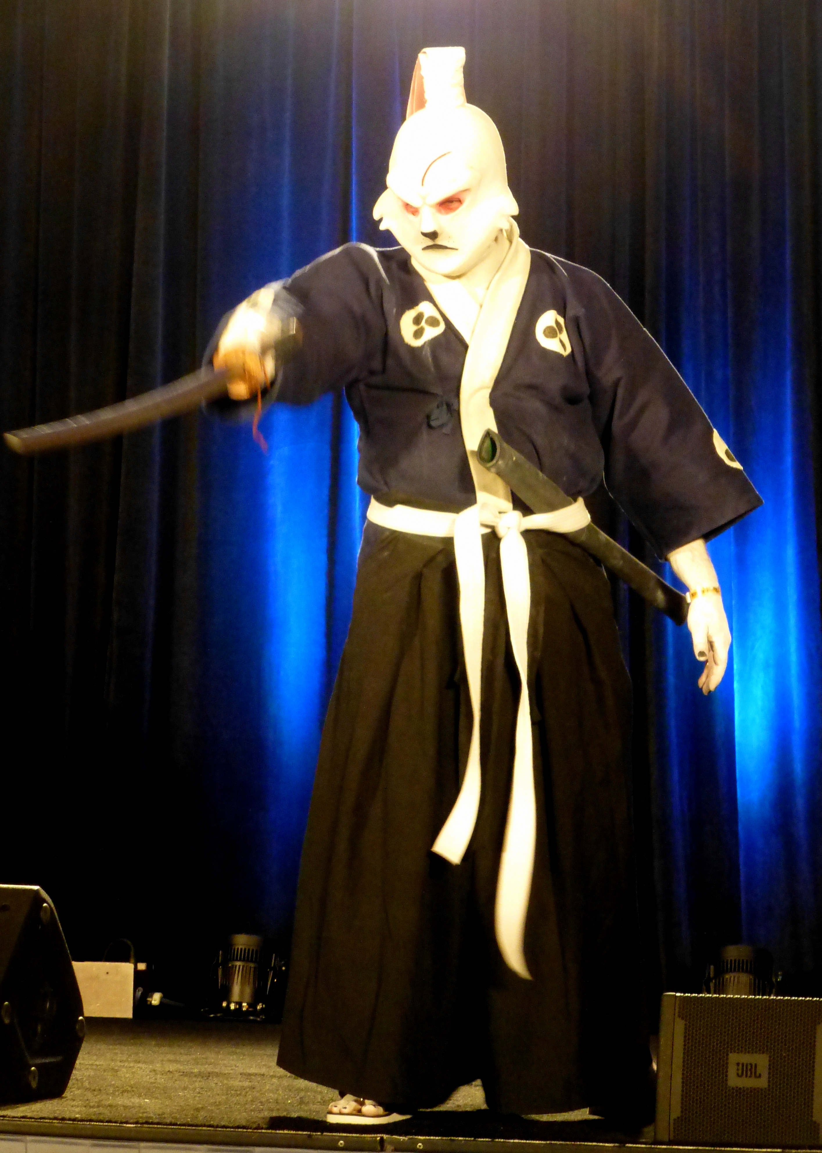 Usagi Yojimbo Costume contest at the 2015 Wizard World Chicago.